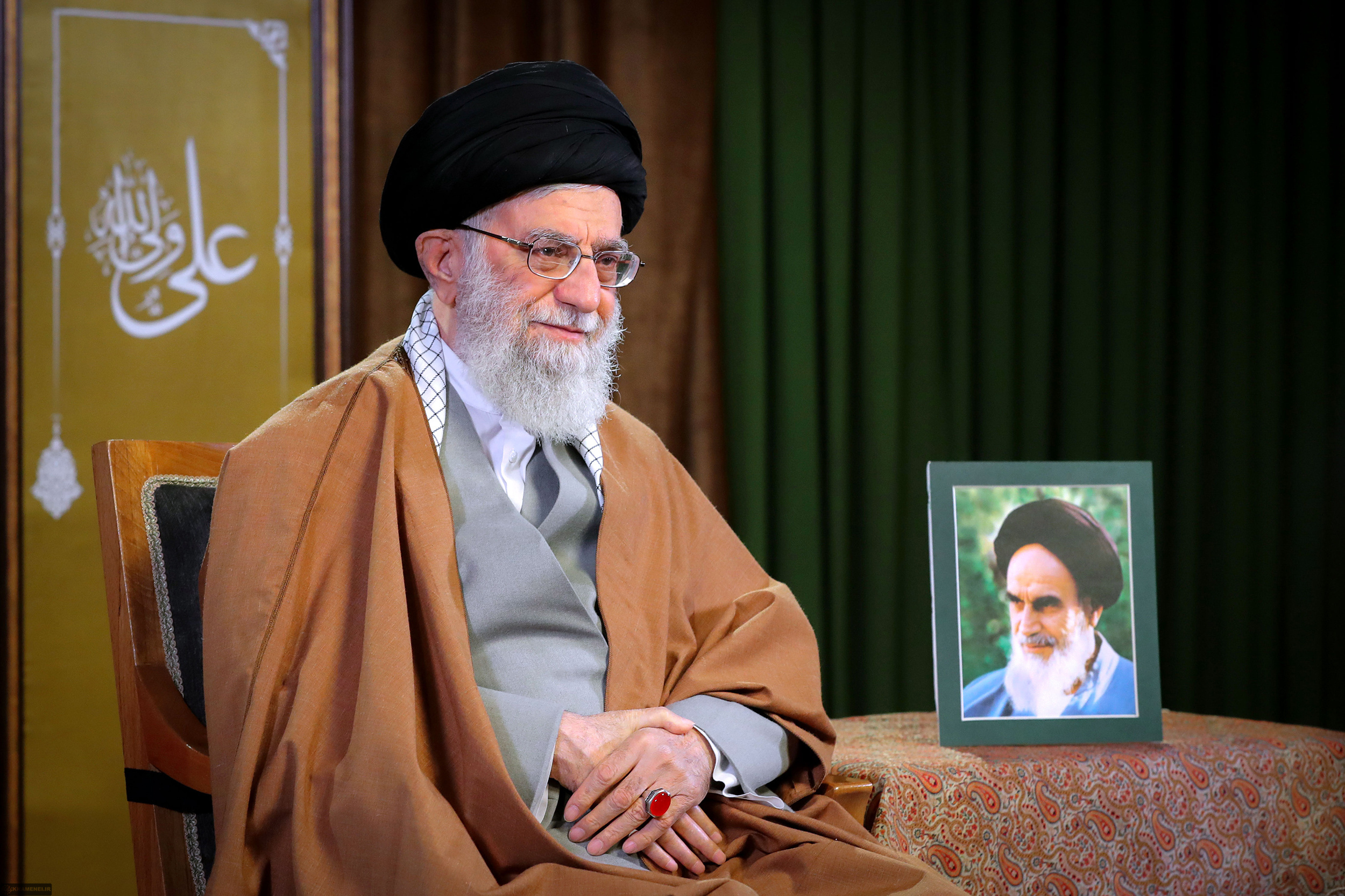 Ali Khamenei during Nowruz 2019 message